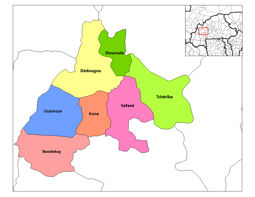 This map has been uploaded by Osiris fancy from to enable the Wikimedia Atlas of the World. Original uploader to was Rarelibra. Osiris fancy is not the creator of this map. Licensing information is below. Map of the departments of Mouhoun province in Burkina Faso. Created by Rarelibra 03:28, 30 September 2006 (UTC) for public domain use, using MapInfo Professional v8.5 and various mapping resources.